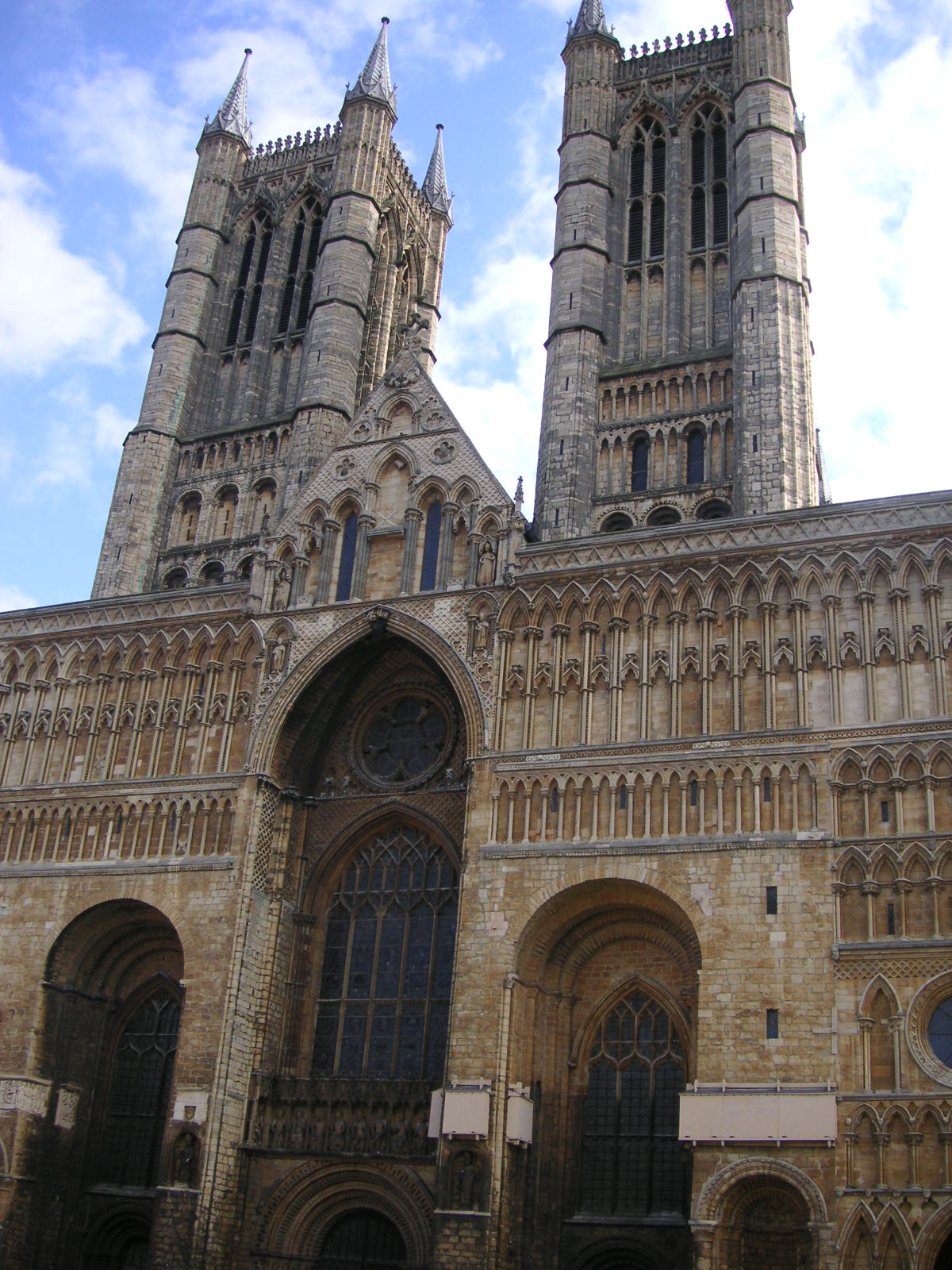 England, Lincoln Cathedral, West front, Norman portal, Gothic towers and screen.